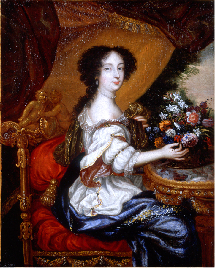 Portrait of Barbara Villiers Duchess of Cleveland 1641 - 1709